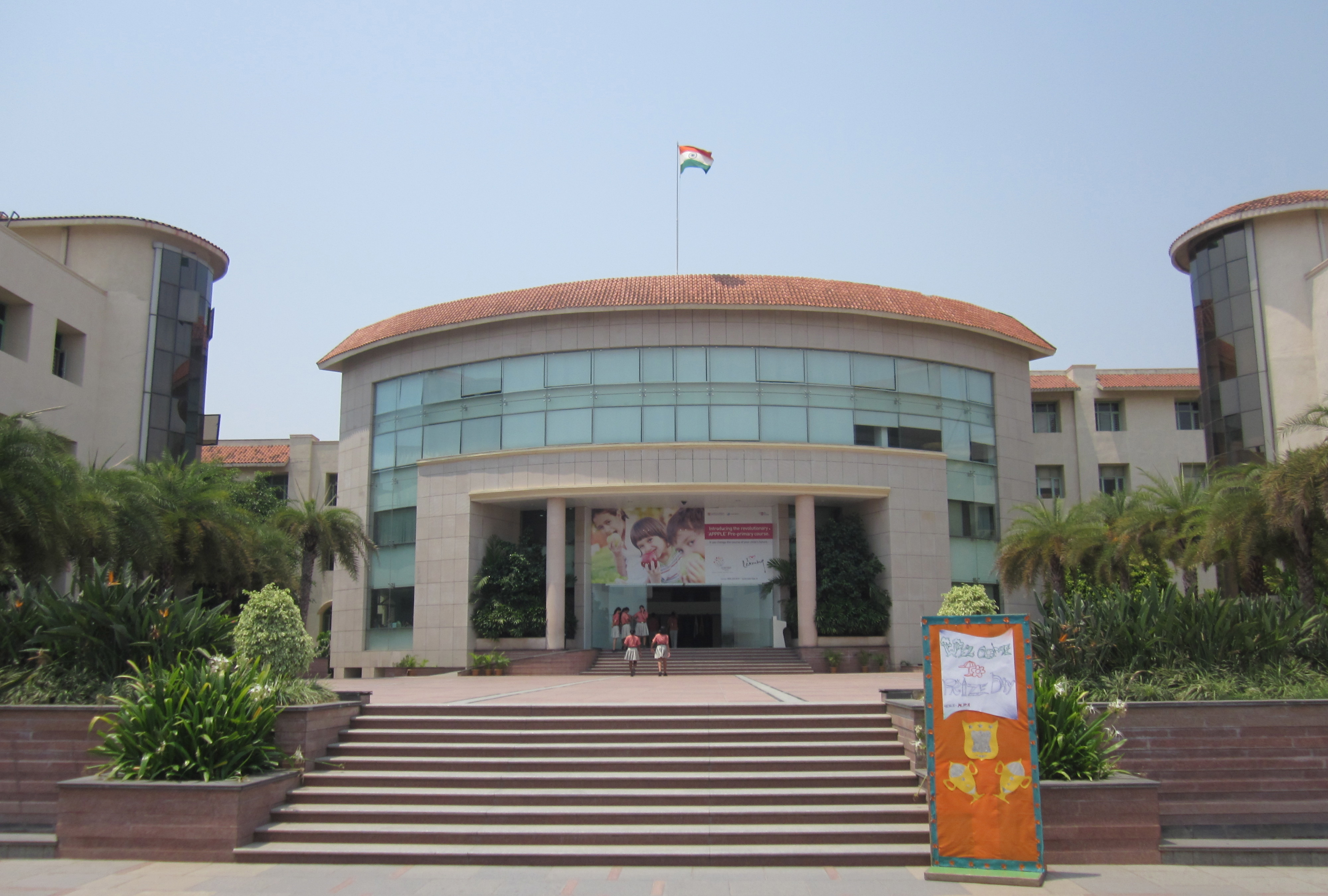 The main building of the school in Hyderabad, Andra Pradesh, India